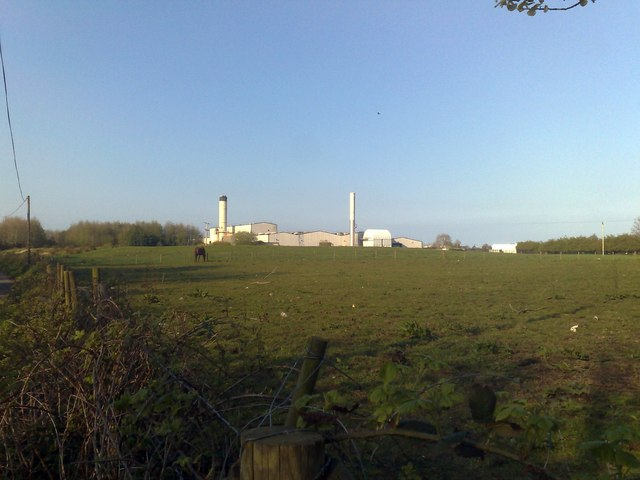 Calcast, Upper Campsey This is the Calcast Metal works on Keans Hill Road on the Campsie Industrial Estate. The shot is taken from the White Horse car park on the Donnybrewer Road. Townland is Upper Campsey.